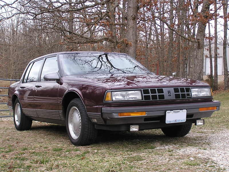 1989 Oldsmobile Ninety-Eight Touring Sedan